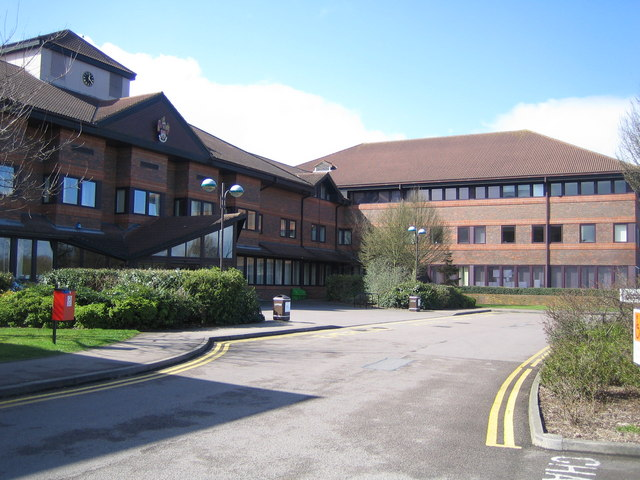 Dunstable: Former South Bedfordshire District Council headquarters. Now offices of Central Bedfordshire Council